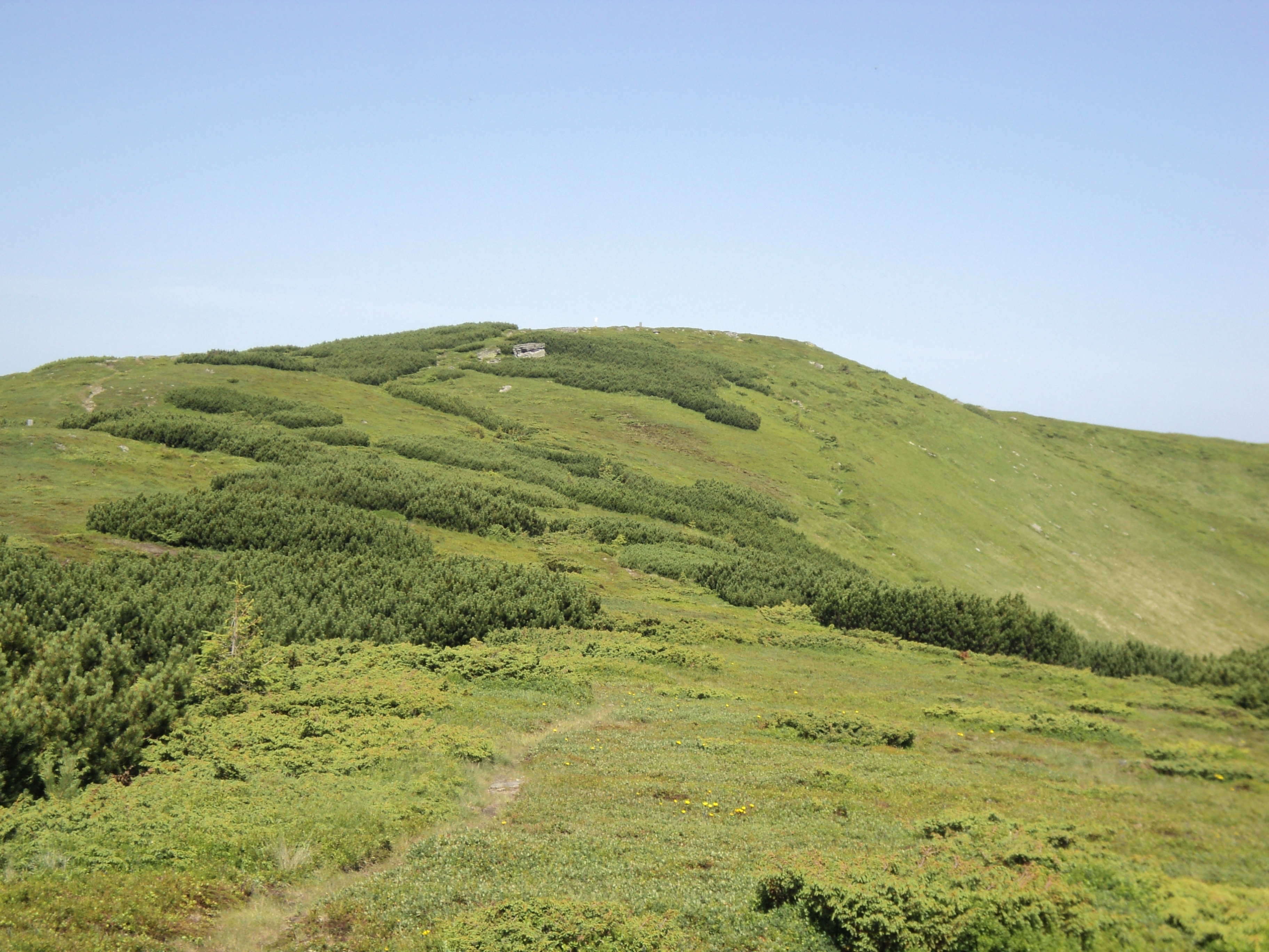 Bratkivska